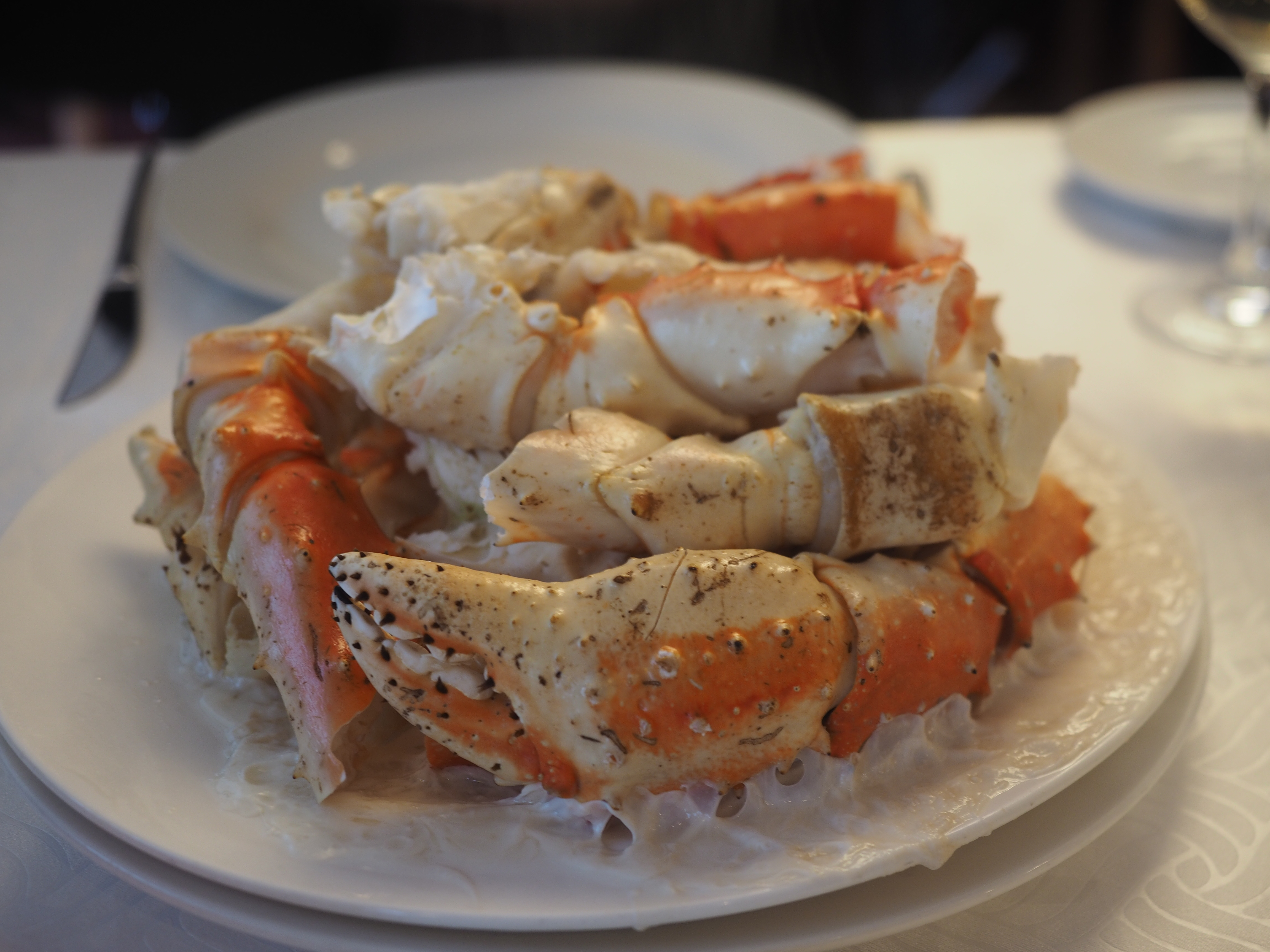 A dish of king crab served at a restaurant in Kirkenes, Norway. The dish consists entirely of ten legs of king crab with no side dishes or other additions. Still it was enough to feed two people.